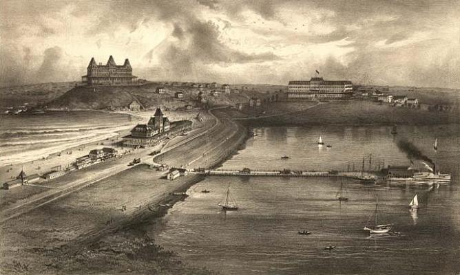 "View of Nantasket Beach, Looking Southeast from Sagamore Hill," 1879, drawn by R. P. Mallory, published by Geo. H. Walker & Co., Boston.